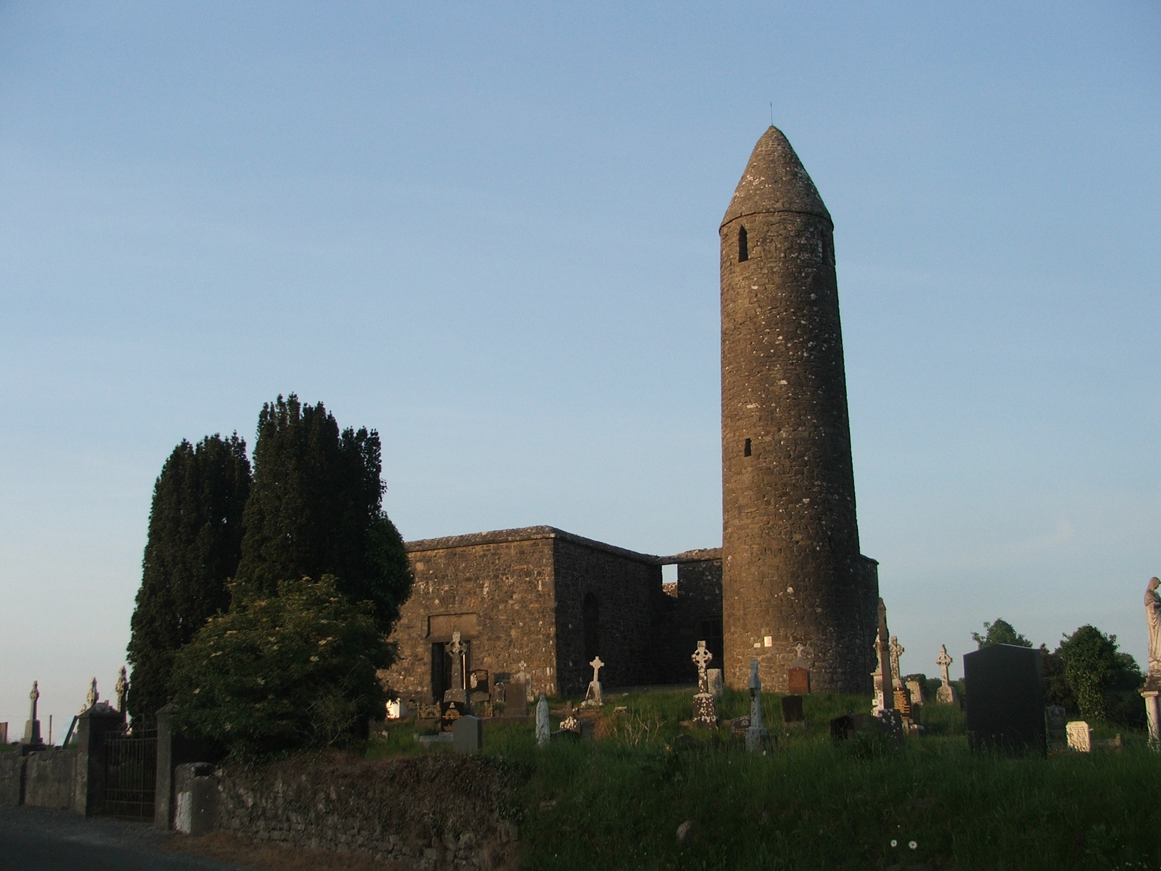 Irish round tower and its surrounding graveyard in Turlough, County Mayo, Ireland. St. Patrick founded the first church here and baptised many people at a nearby well. Although an important monastery, little is known of its history except that in 1351 the Archbishop of Armagh who had long claimed jurisdiction over it was ordered by the Pope to relinquish his rights to the Archbishop of Tuam, After the Dissolution it passed first to the Burkes and then to the Fitzgeralds. The Round Tower is unusually squat and was built between 900 and 1200. The church was built in the 18th century but incorporates an earlier window and a Crucifixion plaque dated 1625.